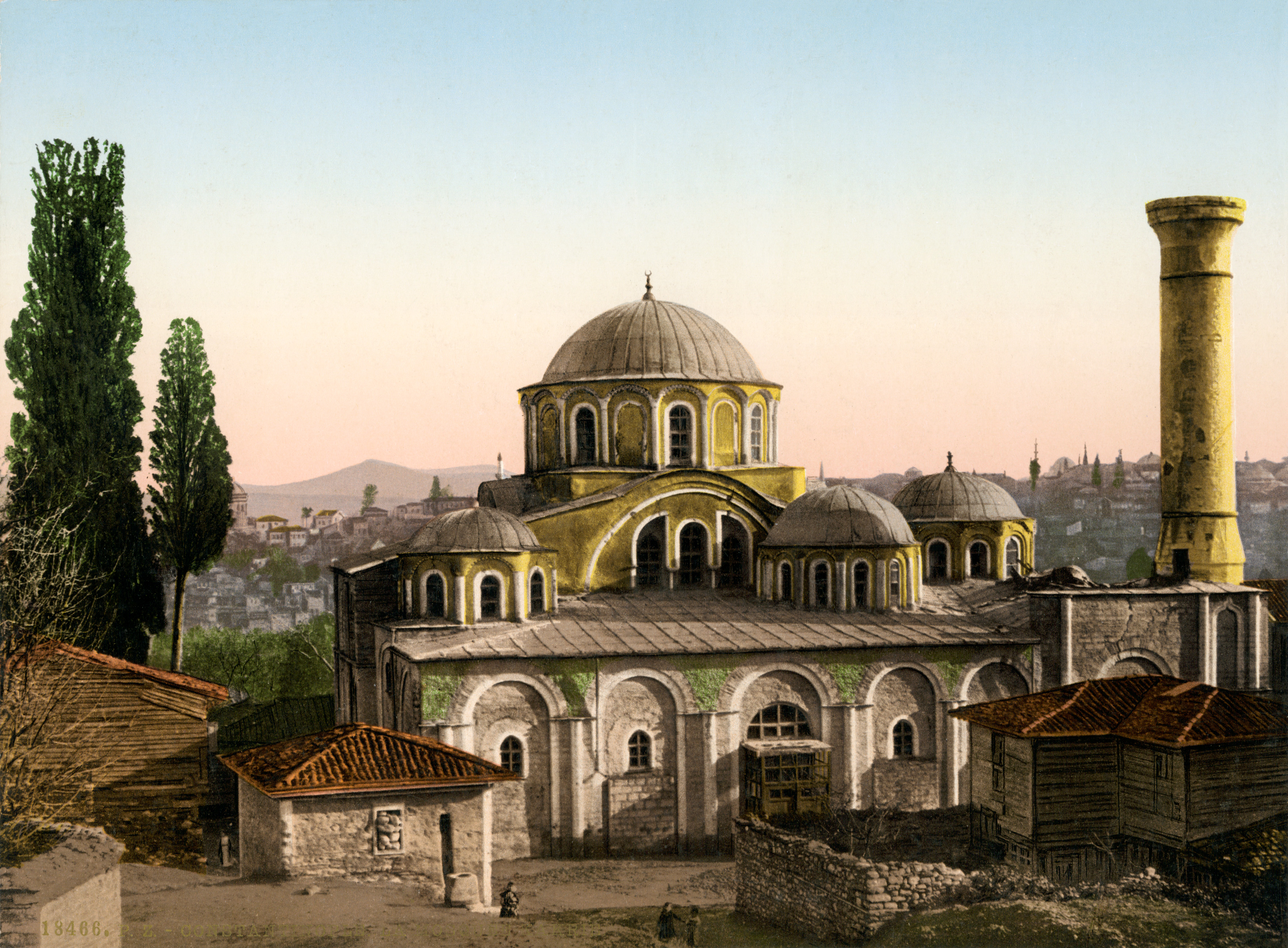 18466 P.Z. Constantinople, Mosquée Kakrie [actually Kariye Müzesi, formerly the Church of St. Savior in Chora]. Photochrom print by Photoglob Zürich, between 1890 and 1900 ca. 1908 according to this book. From the Photochrom Prints Collection at the Library of Congress More photochroms from Turkey | More photochrom prints [PD] This picture is in the public domain